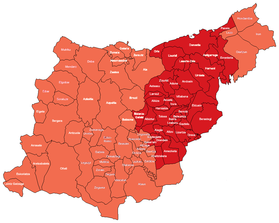 Linguistic map showing (in dark red) the municipalities where the Beterri sub-dialect of the Basque language is spoken.